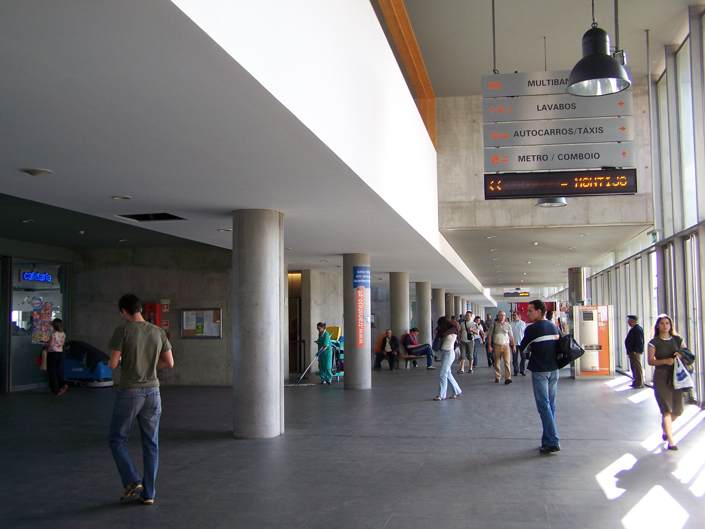 The Lisbon ferry terminal Cais do Sodré, Portugal